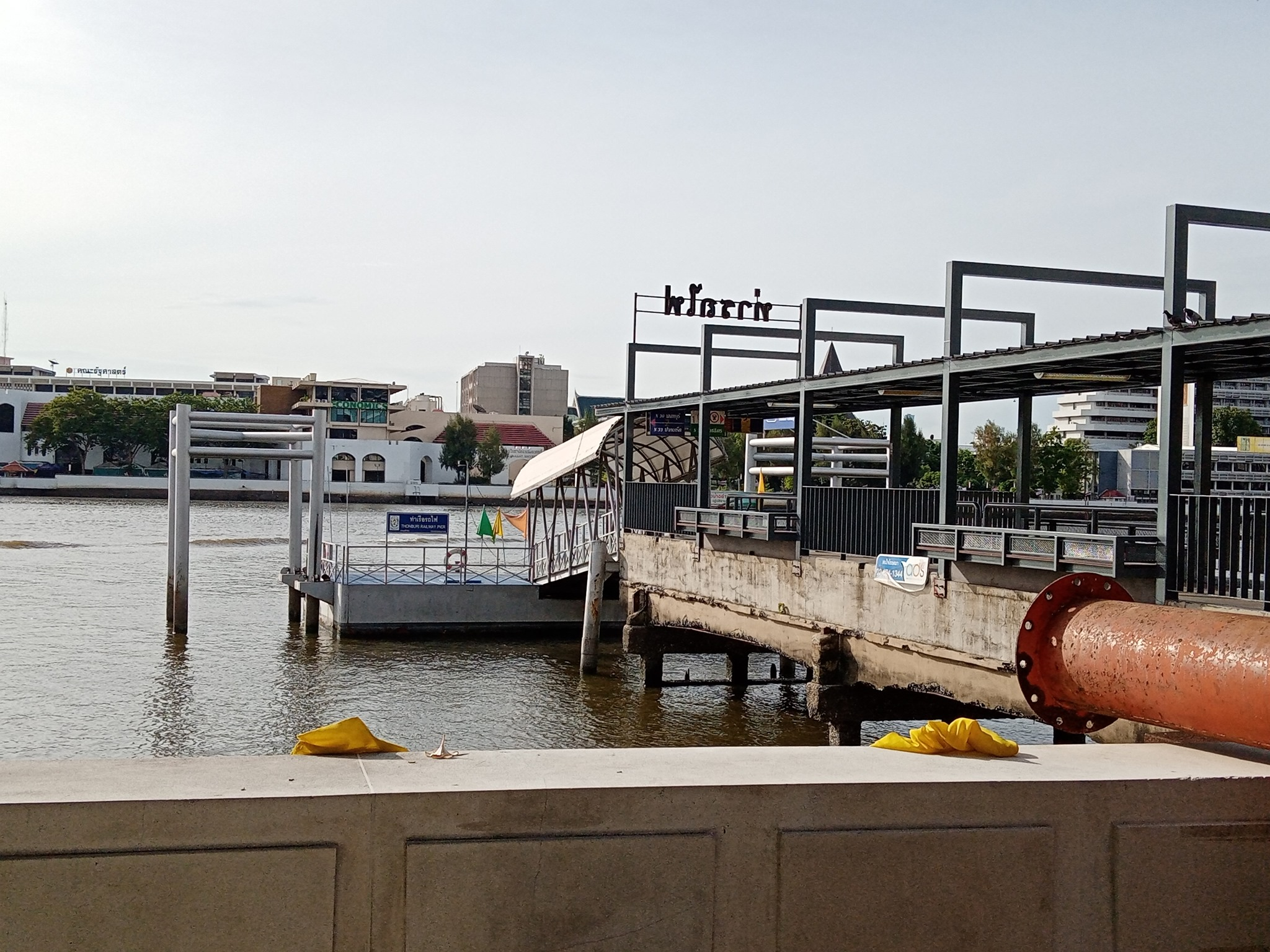 Tha Rot Fai (Railway Station Pier), a stop for Chao Phraya Express Boat